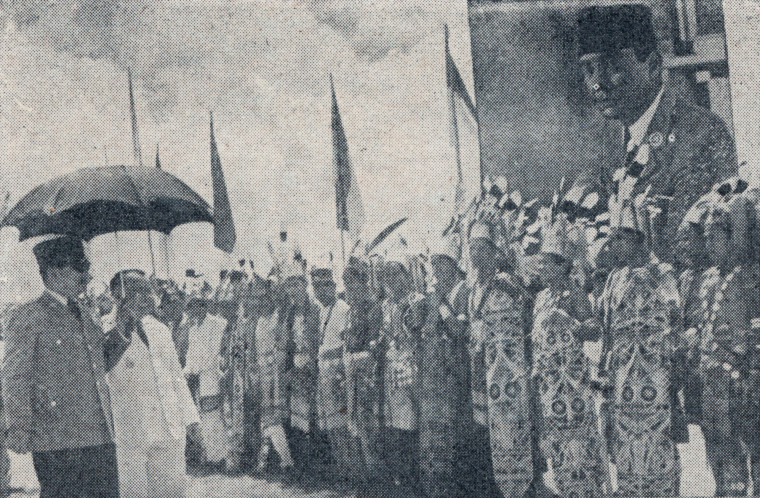 Sukarno with adat peoples in Pontianak, West Kalimantan